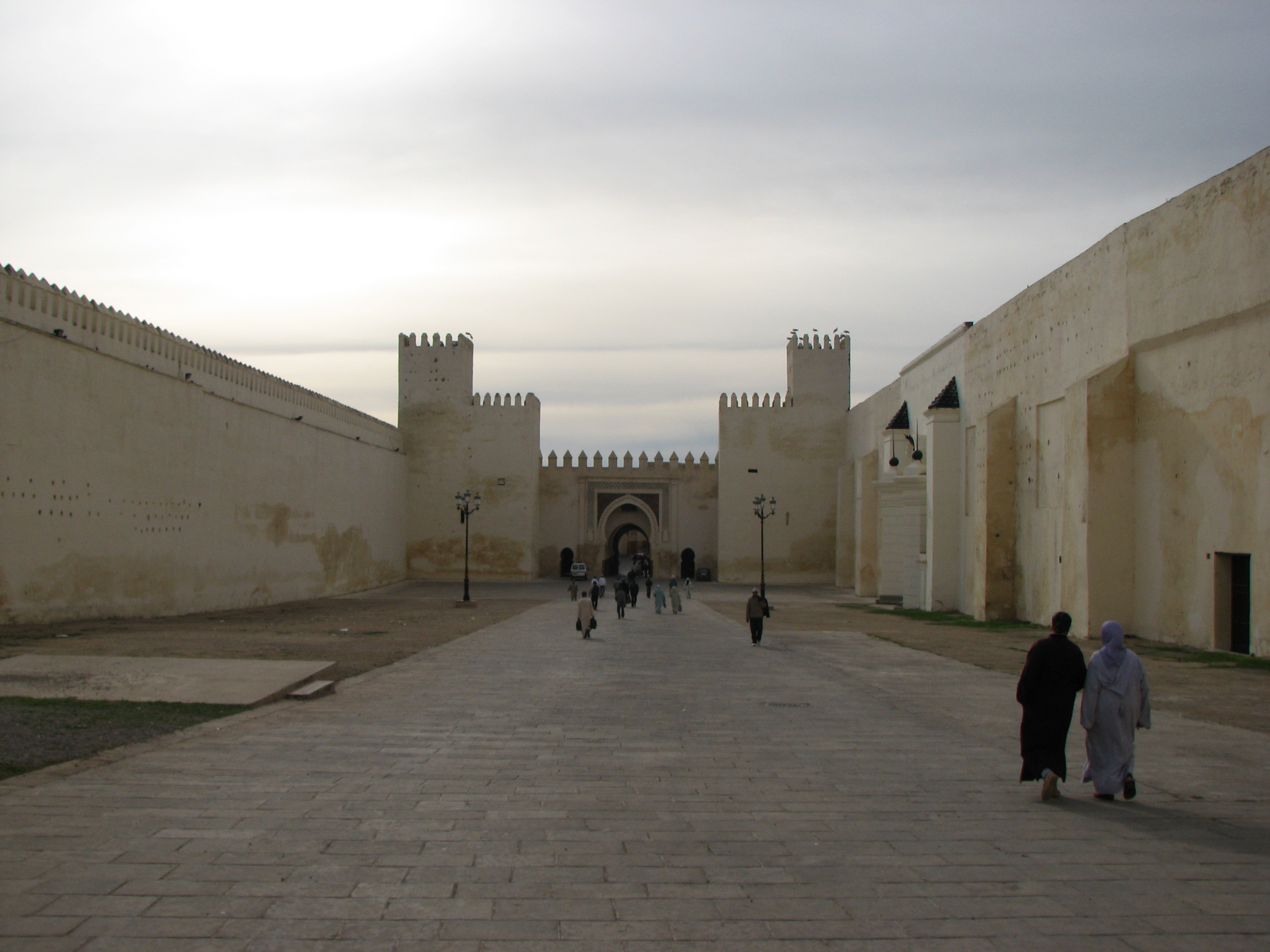 A walk along the walls of Fez